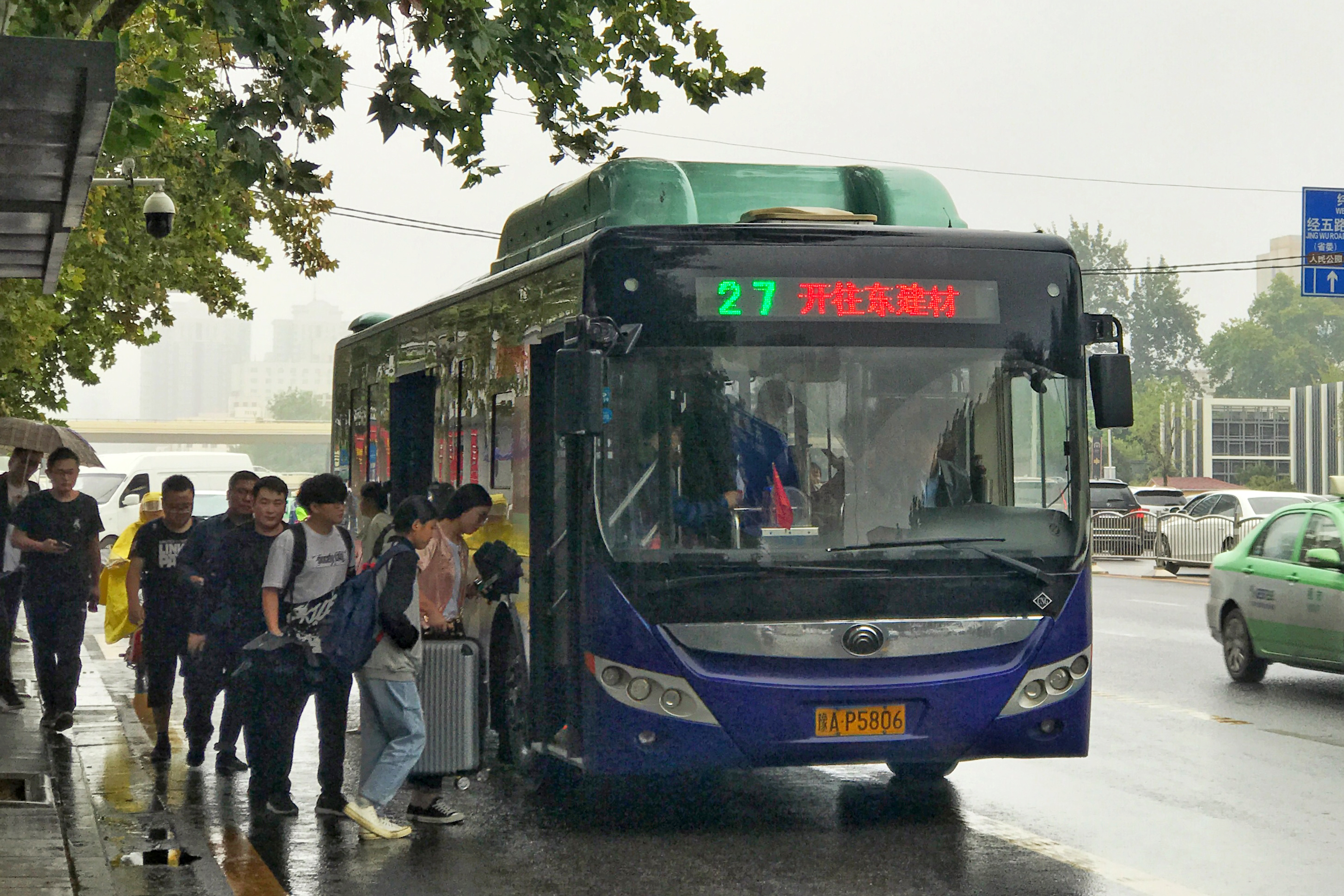 Yutong ZK6120CHEVNPG4 on Zhengzhou Bus Route 27